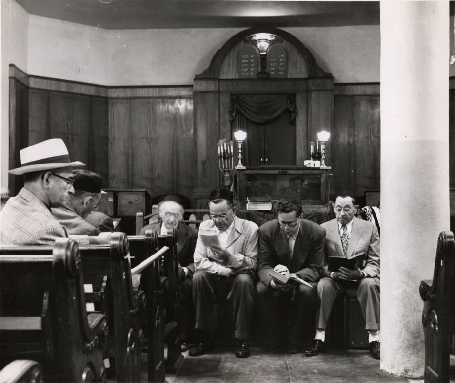 Tisha B'Av is a Jewish day of mourning and fasting. It literally denotes the ninth day (Tisha) of the month of Av. It commemorates tragedies that have befallen the Jewish people over time, including the destruction of the First and Second Temples in Jerusalem. Date: 1951? Source: 8 x 10 Format: Black and white commercial photo Subject: Religion; Synagogue Buildings Coverage: Minneapolis; Hennepin; Minnesota; United States Local Identifier: MHS524 Link to our record: From the Steinfeldt Photography Collection of the